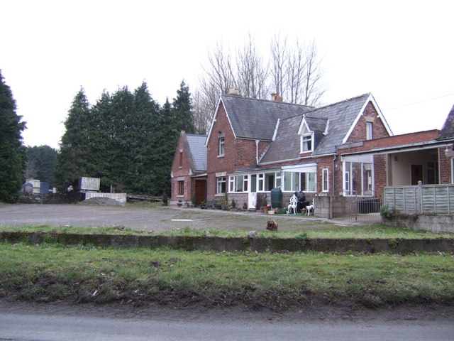 Pembridge station buildings Residential since the 1960's I expect.